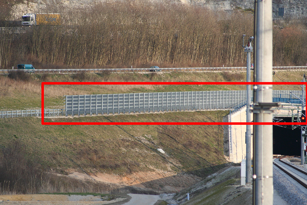 A so-called Ladungsabwurf-Rückhaltesystem, a massive steel barrier next to a road that crosses the Nuremberg–Ingolstadt high-speed railway line at the north entrance to the Irlahüll-tunnel. These barriers, three meters in height, are to prevent freight items from falling down on the track.